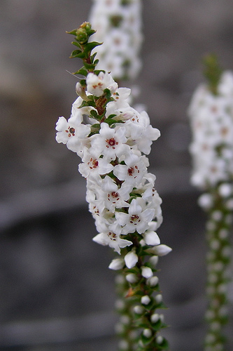 Epacrys mycrophylla. Photographed in Lane Cove National Park, NSW, Australia.